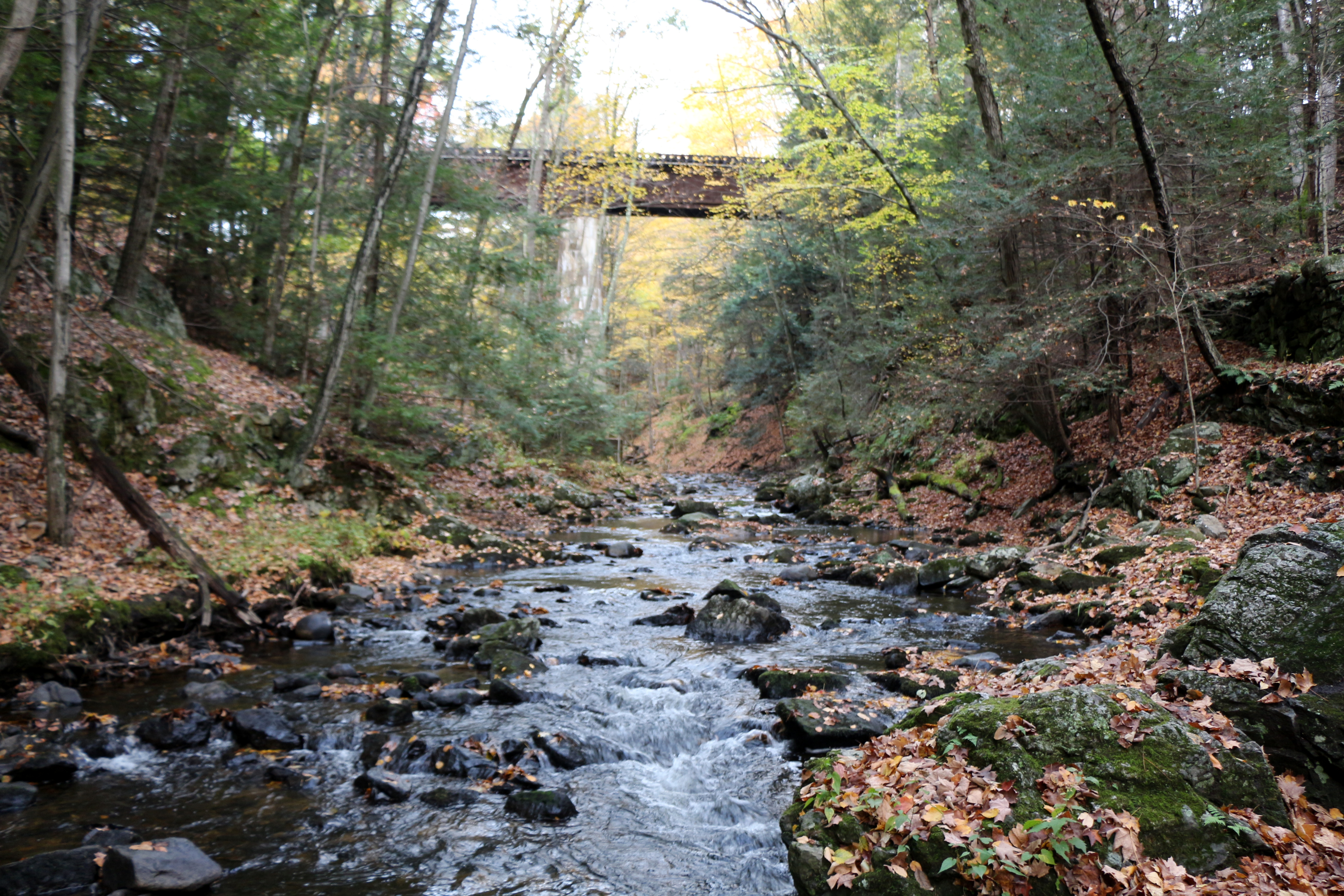 Looking upstream from the center of Fort River in Amherst, Massachusetts. Formerly part the industrial area in town, the area has been reclaimed into conservation land (to the right of this picture, on the south side of the river). A bridge belonging to the New England Central Railroad runs over the river towards Montague and was re-constructed in 1939. The area downstream leads to Puffers Pond, formed by damming the river and is popular amongst residents of the down and students from the nearby University of Massachusetts Amherst.